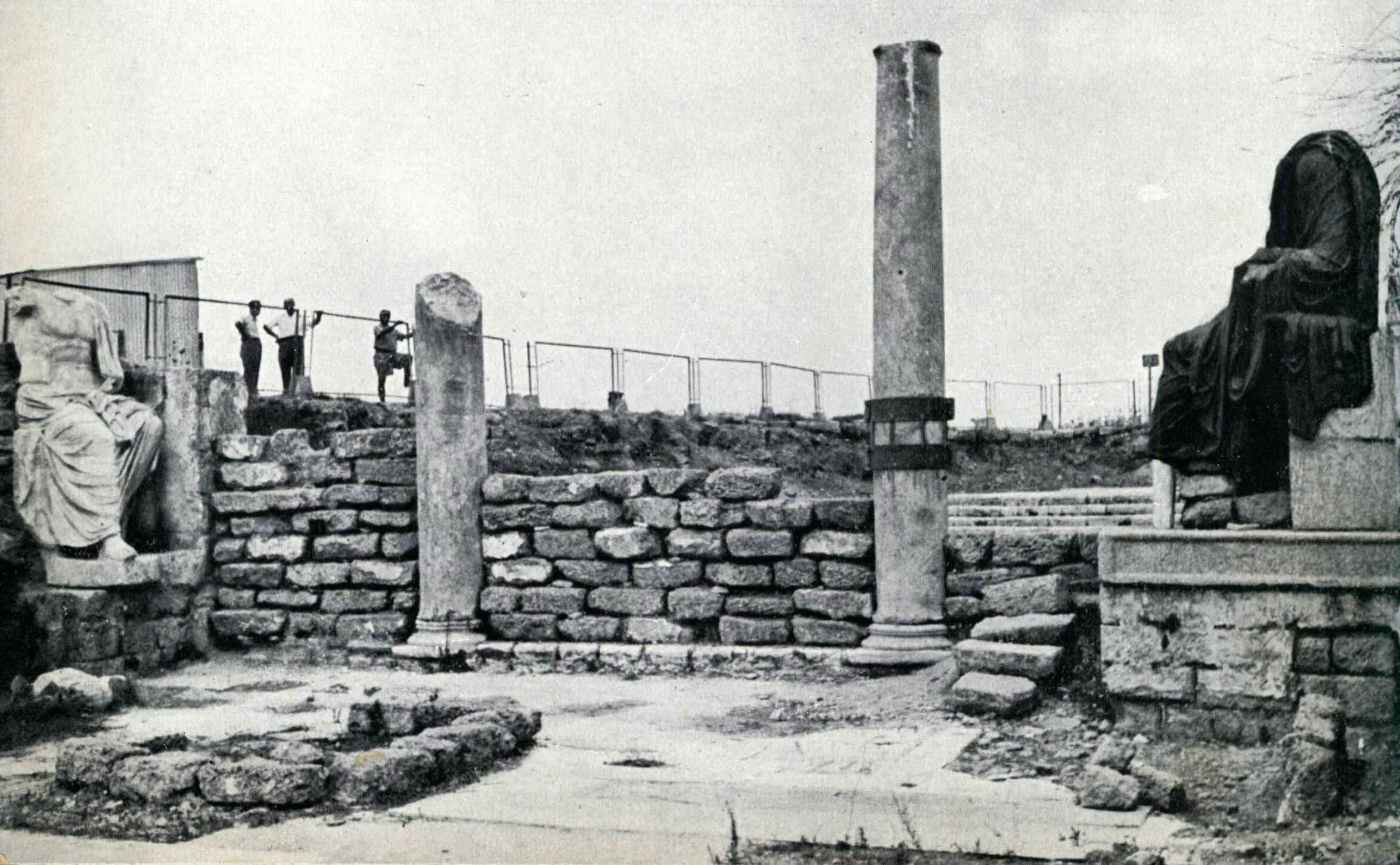 Historic preservation in Caesarea Maritima